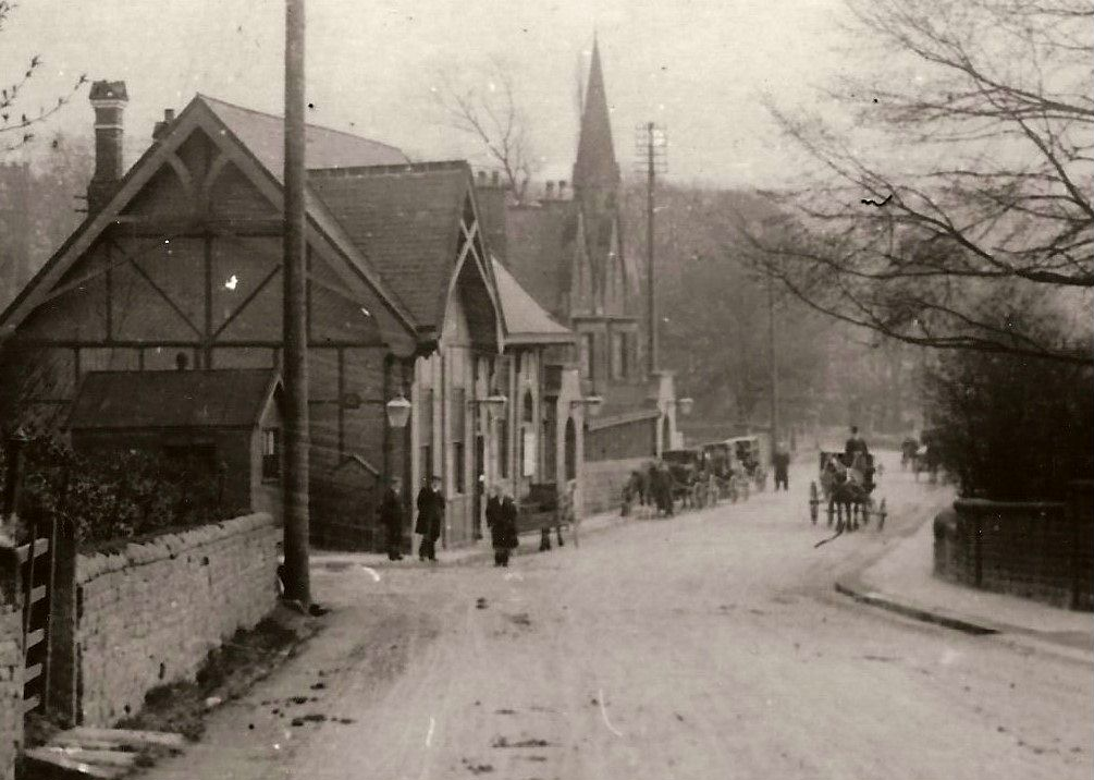 Pre-1914 photograph of the old Apperley Bridge railway station building, of around 1847.